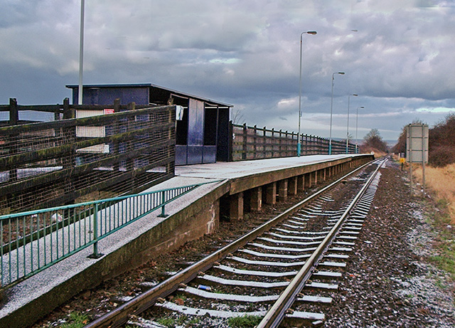 Gypsy Lane railway station, on the Whitby to Middlesbrough line.